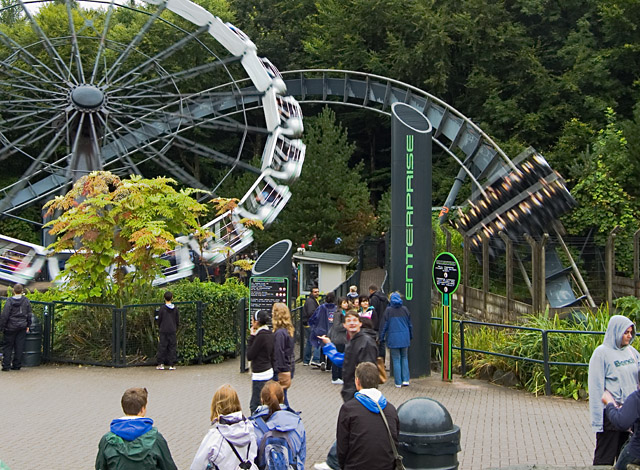 X-Sector, Alton Towers The wheel on the left is the Enterprise Ride; one of the cars on the Oblivion ride can be seen on the right.